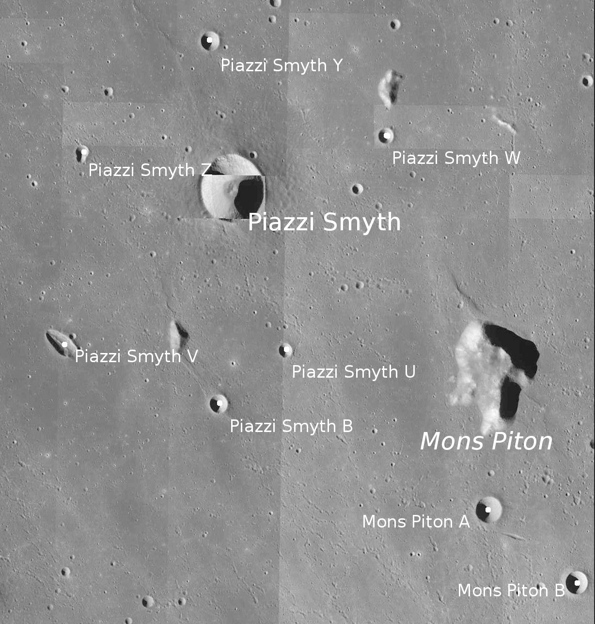 Crater Piazzy Smyth and Mons Piton with satellite features (detail of LRO - WAC global moon mosaic; Mercator projection)